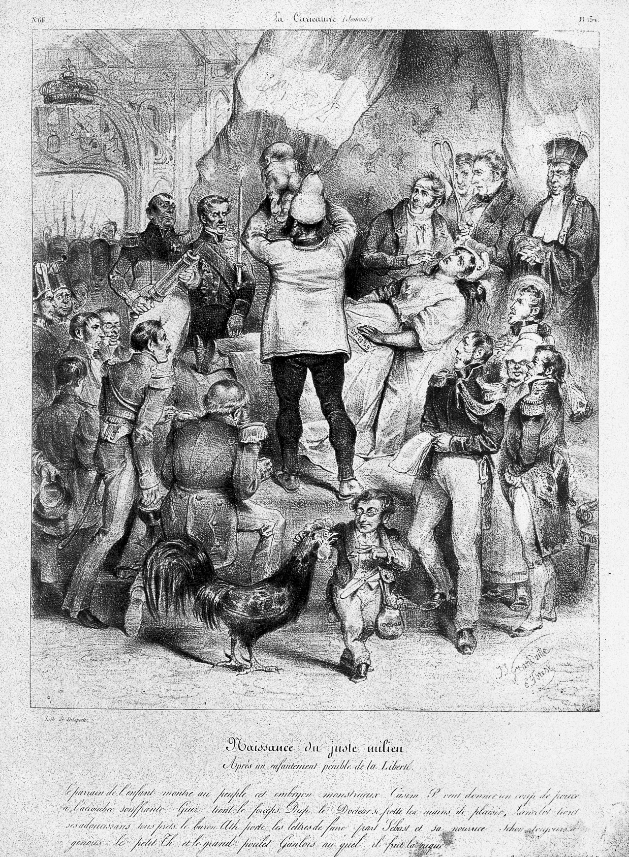 An exhausted mother gives birth before a crowd of French officials; symbolising the birth of the ideas of the July Revolution and their troubled patrimony in the hands of contemporary politicians. Lithograph by E. Forest after J. Grandville, 1831, after Eugène Devéria, 1827. Wellcome Images Keywords: André-Marie Dupin; Francois Guizot; Louis-Adolphe Thiers; Casimir-Perier; Shonen; Athalin; Eugène-Francois-Marie-Joseph Devéria; Eugène-Hippolyte Forest; Jean-Ignace-Isidore Gérard